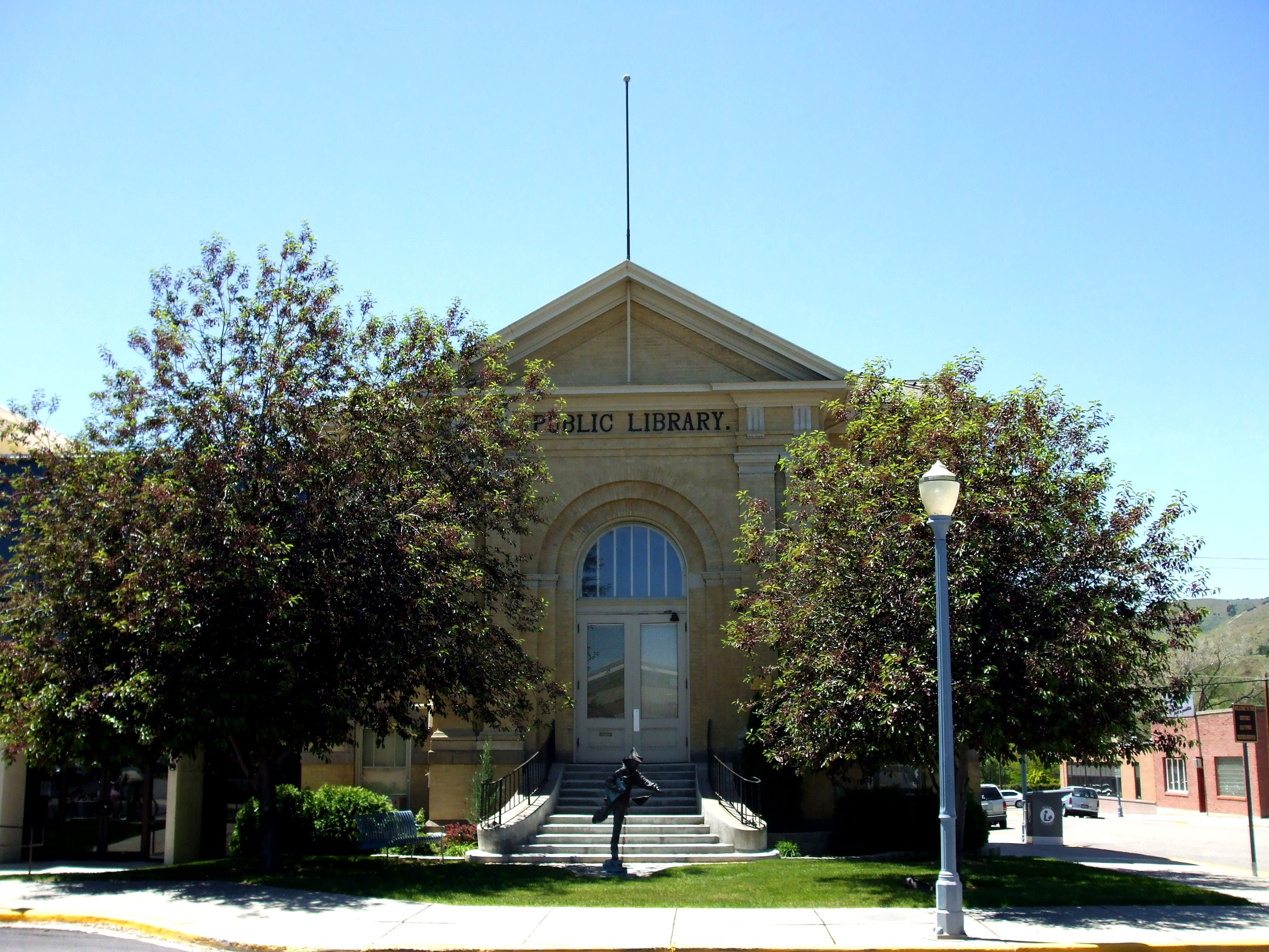 The Pocatello Carnegie Library, a historic building in Pocatello, Idaho, United States, was built in 1907 as a Carnegie library. With substantial additions to the south (left), the building is still used as part of a public library.